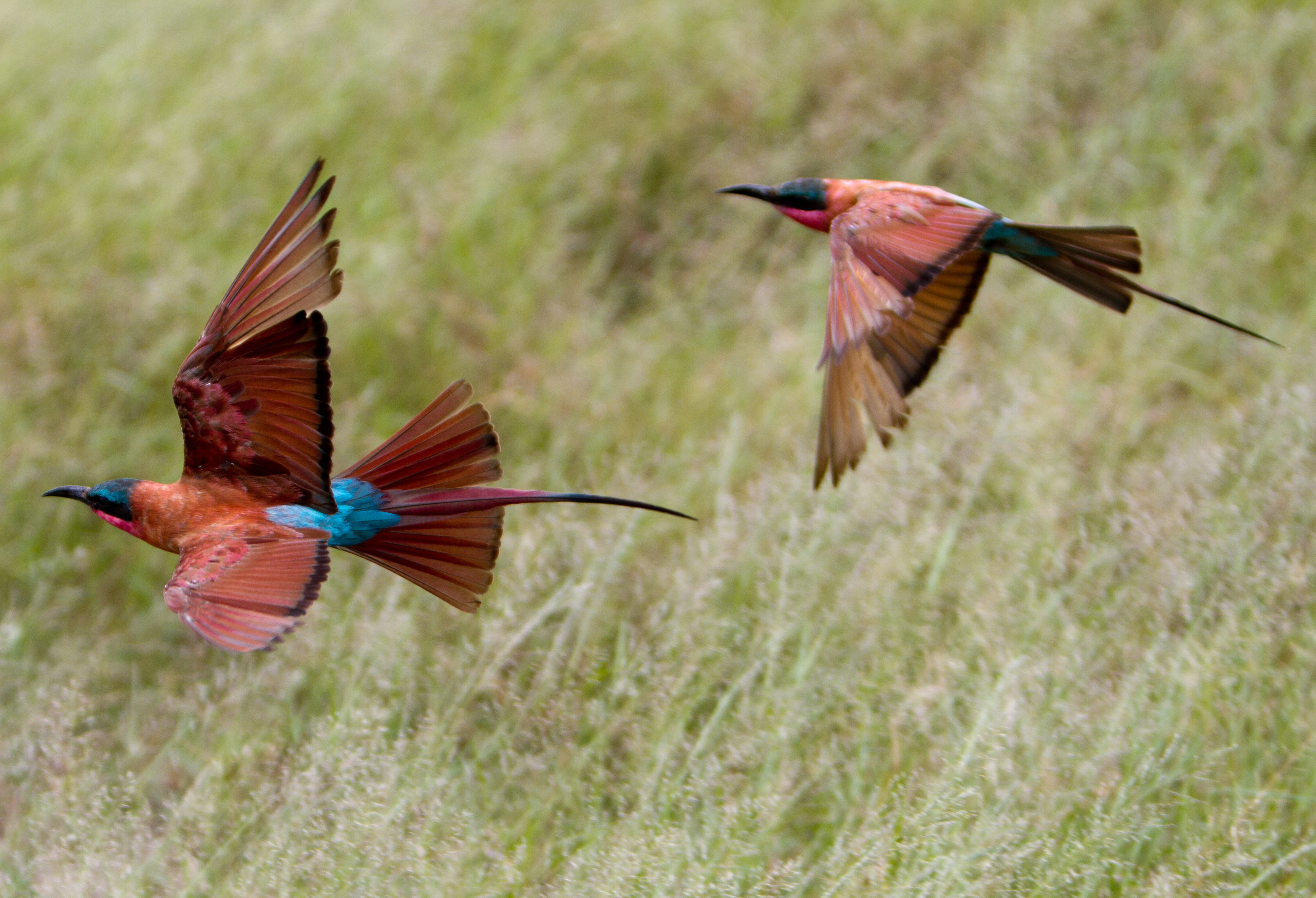 Two southern carmine bee eaters in flight, seen at the Savuto Channel in Northern Botswana